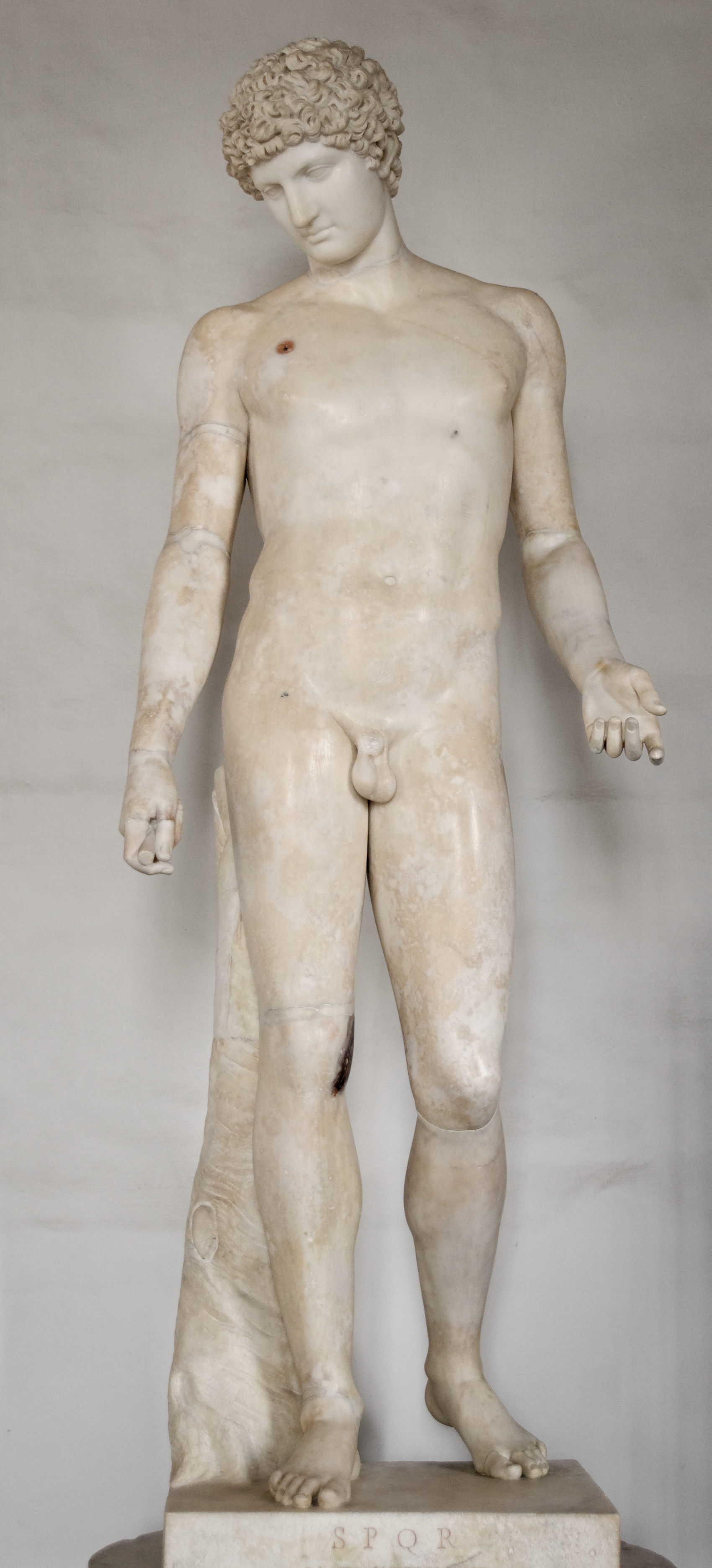 So-called “Capitoline Antinoos”. Marble, Roman copy (2nd century AD) of a Greek statue representing Hermes (4th century BC). From the villa Adriana in Tivoli.